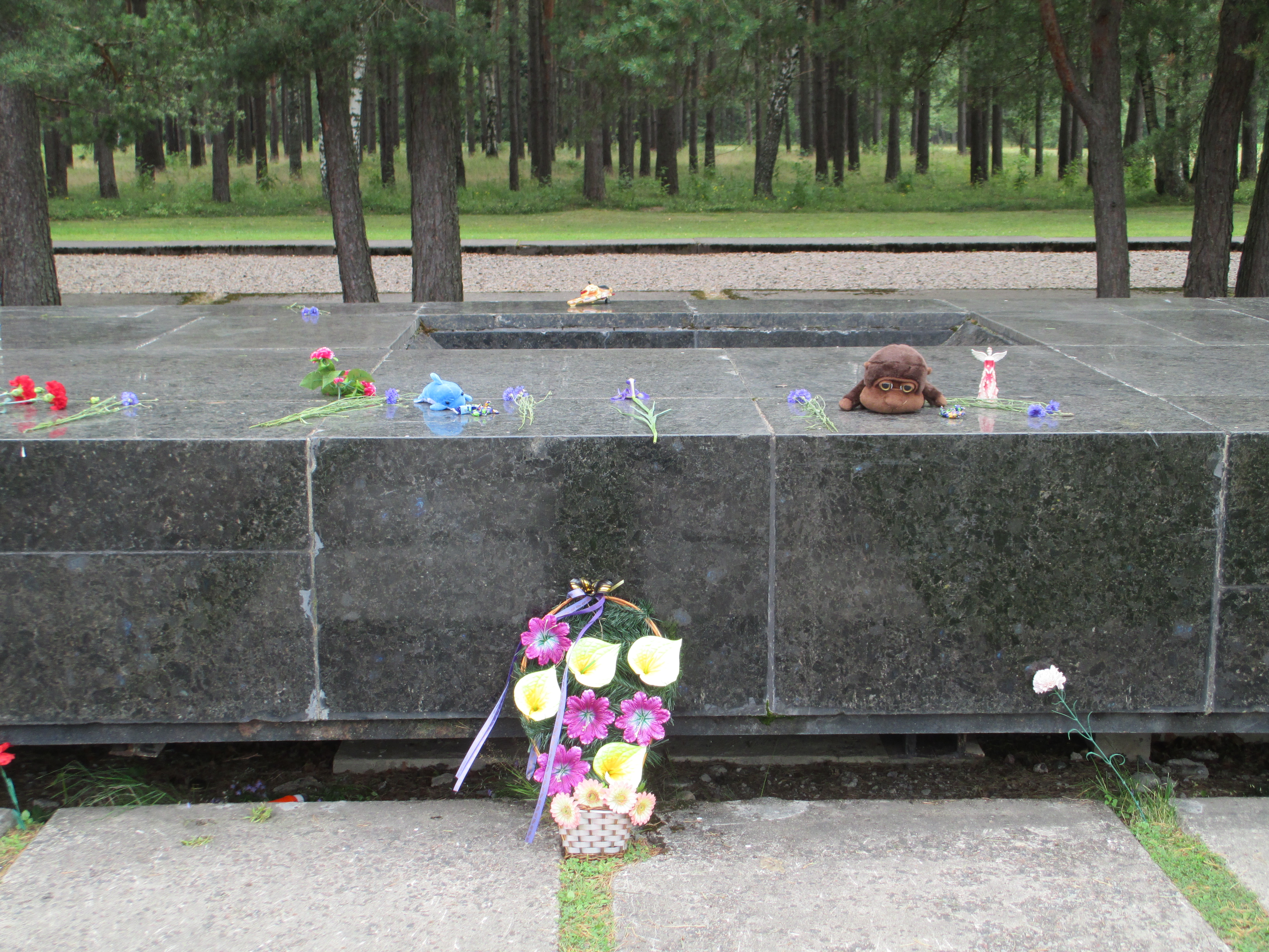 Salaspils concentration camp, children memorial